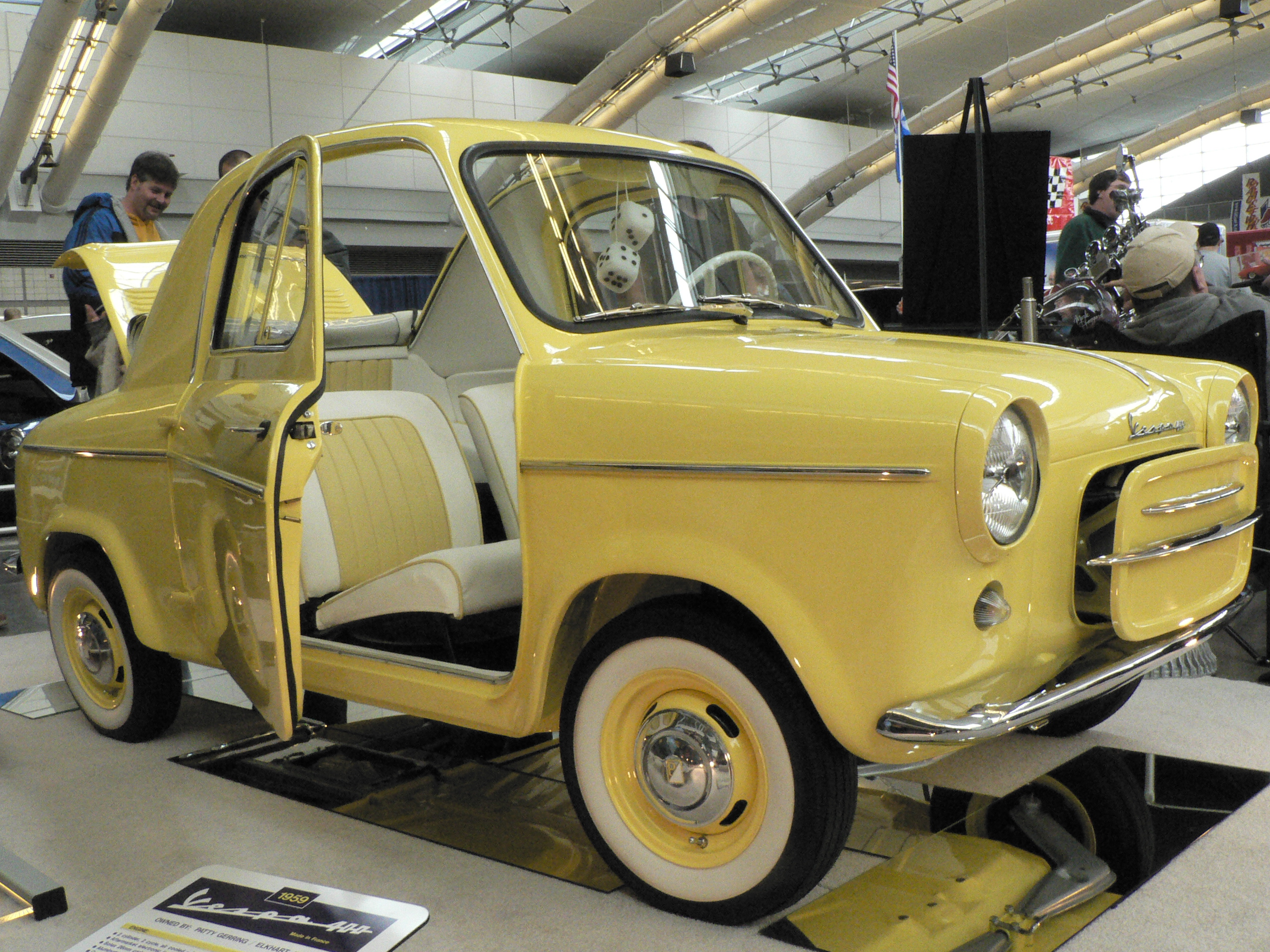 Man, I wish Vespa never stopped making cars. The scooters are cool don't get me wrong but this is awesome. This is the second Vespa I have shot. Top speed 58 mph and SIXTY MGP. Not bad for a Sunday drive. This should have been put over by the Bumblebee.